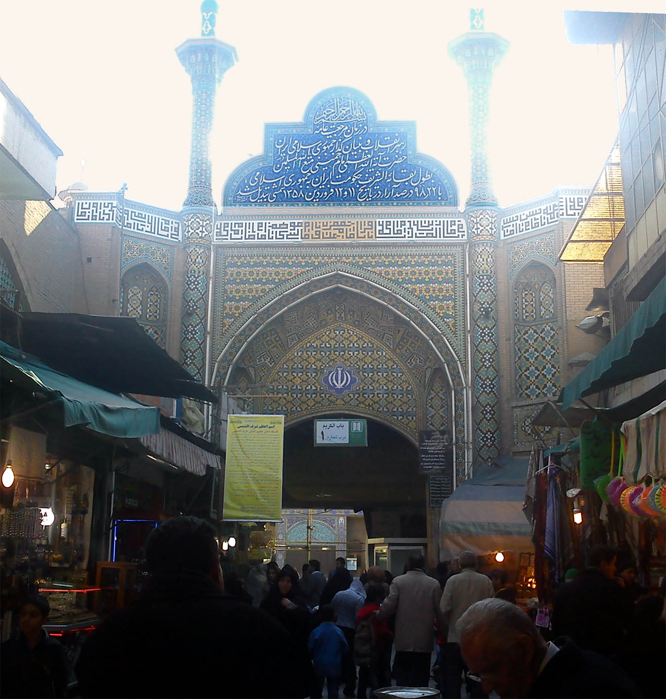 Shah-Abdol-Azim shrine